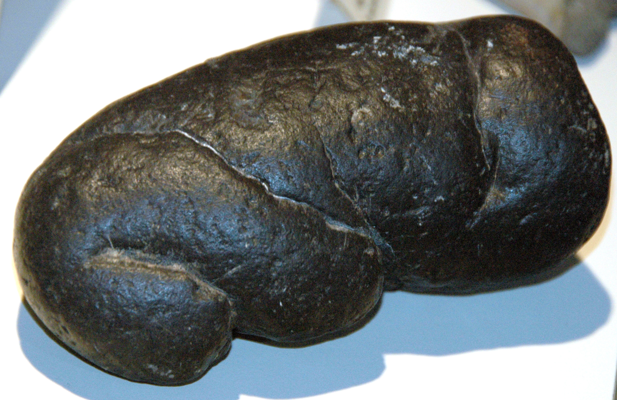 Giant white shark coprolite from the Miocene of South Carolina, USA (public display, Dakota Dinosaur Museum, Dickinson, North Dakota, l masses. They range in size from microscopic-sized pellets to moderately sizable dung piles. The most famous attributed examples are “Washington coprolites” from the Miocene Wilkes Formation of Washington State, USA. But these are now considered cololites (intestinal casts). True coprolites are fossilized dung. Thin sections of coprolites often reveal fragments of incompletely digested plant matter or sometimes undigested animal tissue. So, coprolite studies can provide information about the diet of ancient organisms, assuming the coprolite maker is known with some specificity (which is often not the case). This large coprolite is attributed to the extinct giant white shark, Carcharodon megalodon Agassiz, 1843 (Animalia, Chordata, Vertebrata, Chondrichthyes, Elasmobranchii, Lamnidae). Biogenic products are objects produced by ancient organisms. Many paleontologists refer to these as trace fossils, but they really aren't. Examples of fossil biogenic products include eggs, amber (fossilized tree sap), coprolites (fossilized feces), and spider silk.